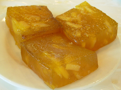 Waterchestnut cake water chestnut cake